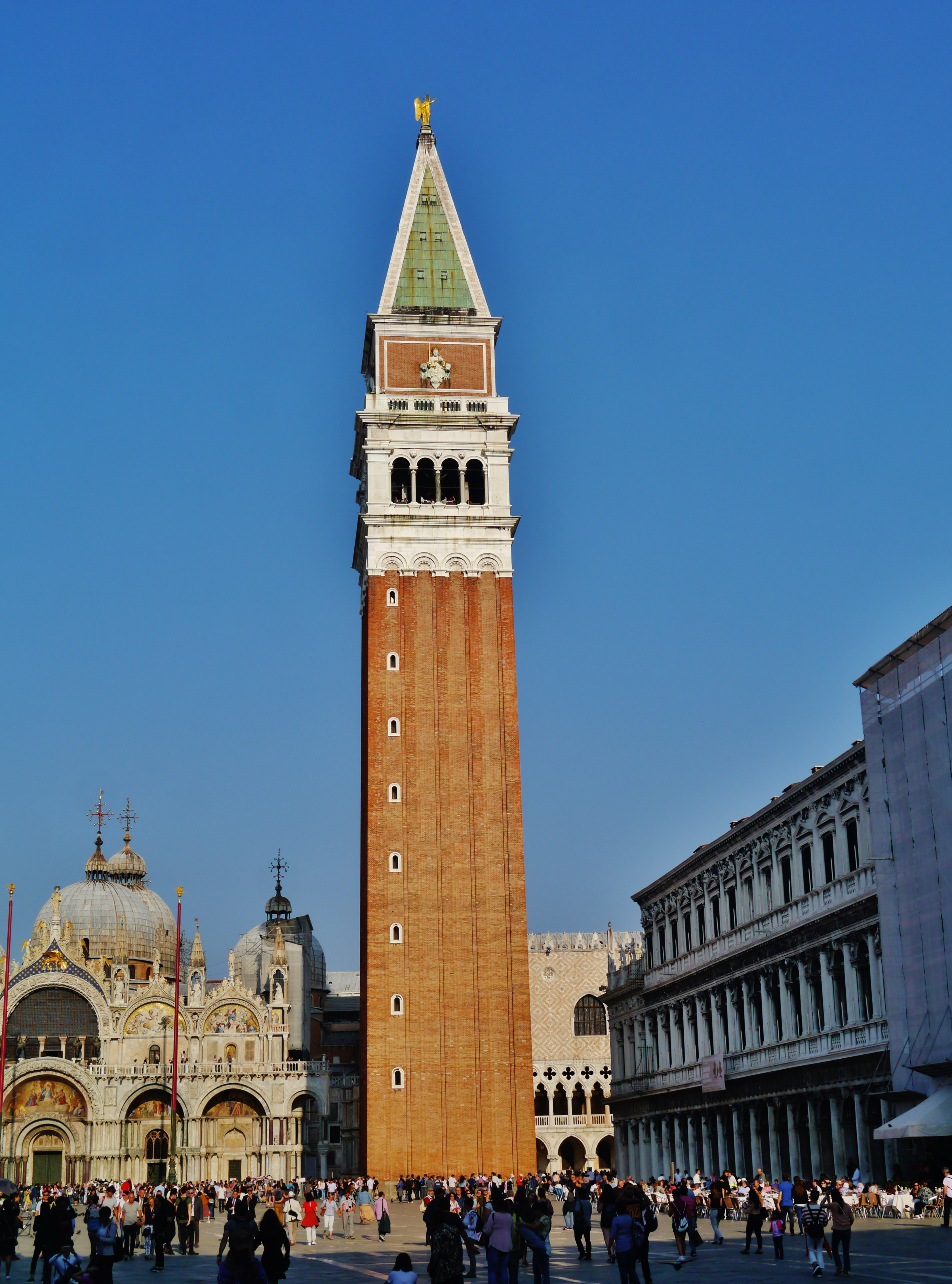 Belltower of St. Mark's Basilica, Venice, Metropolitan City of Venice, Region of Veneto, Italy